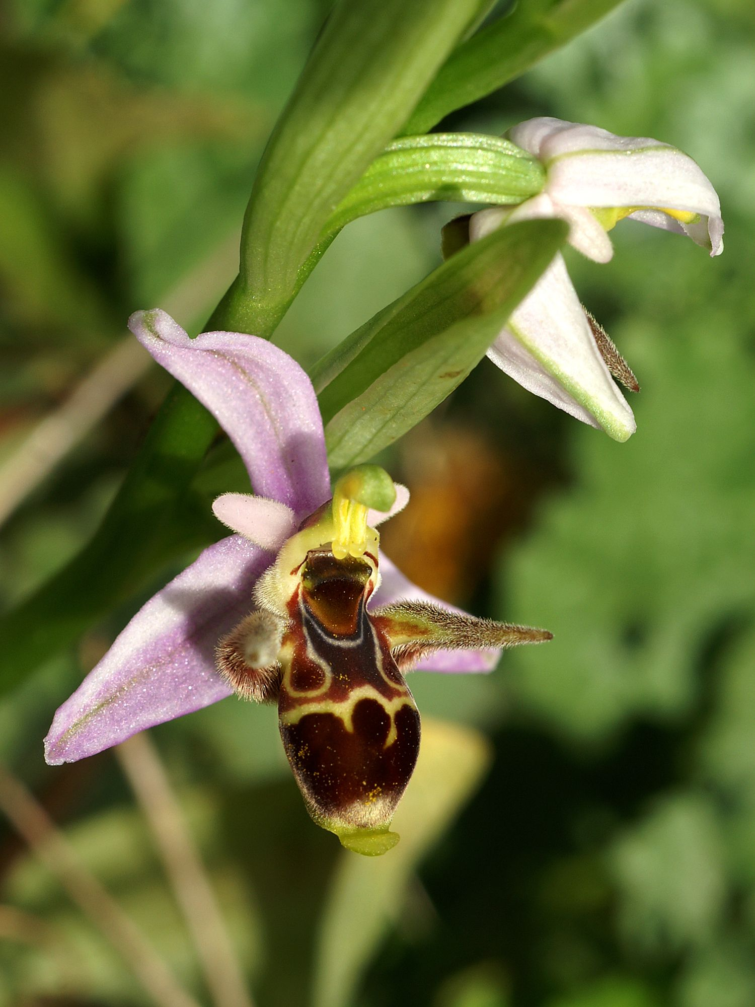 Ophrys crassicornis